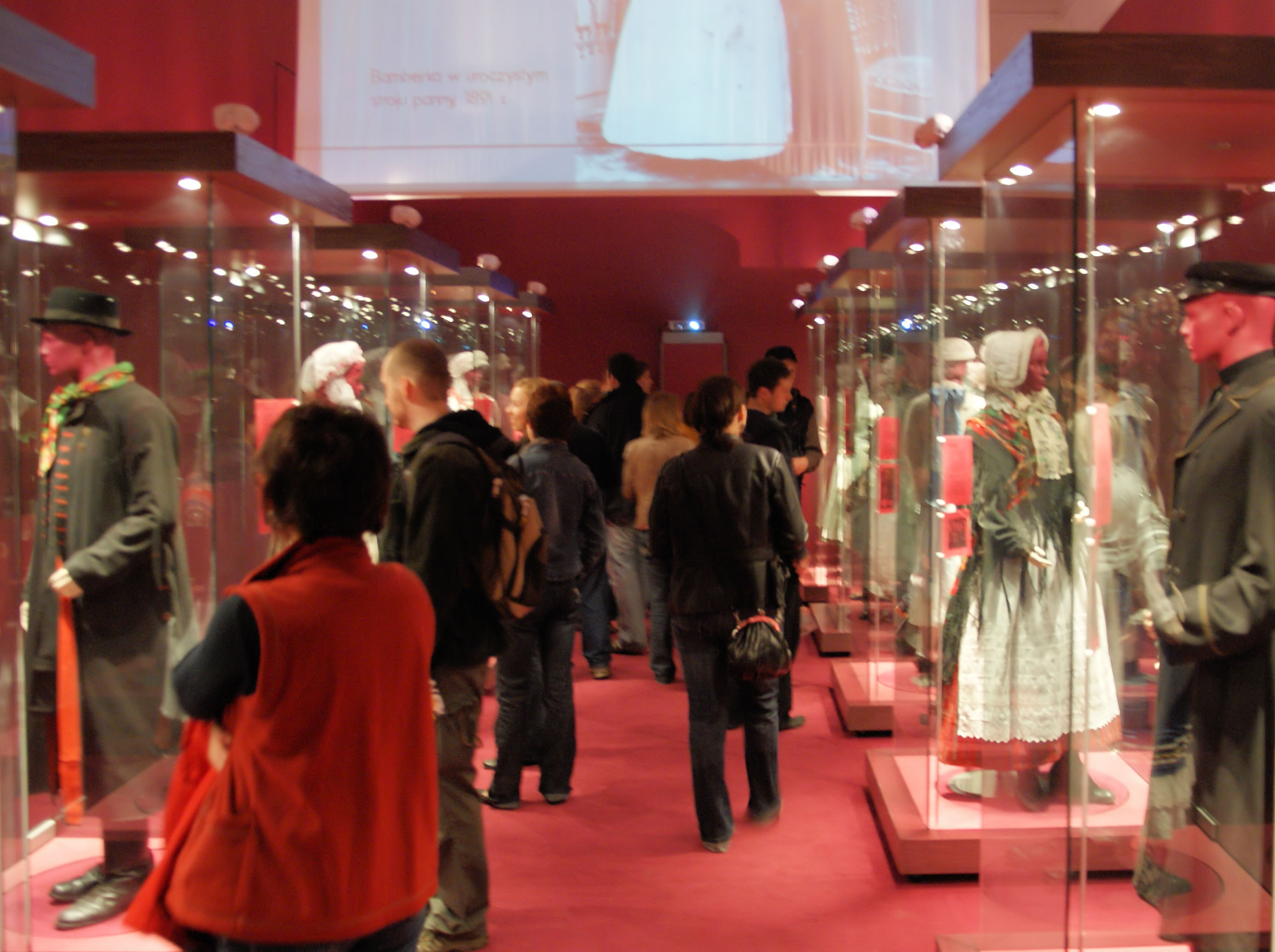 Museum of Etnography, Poznań, Poland